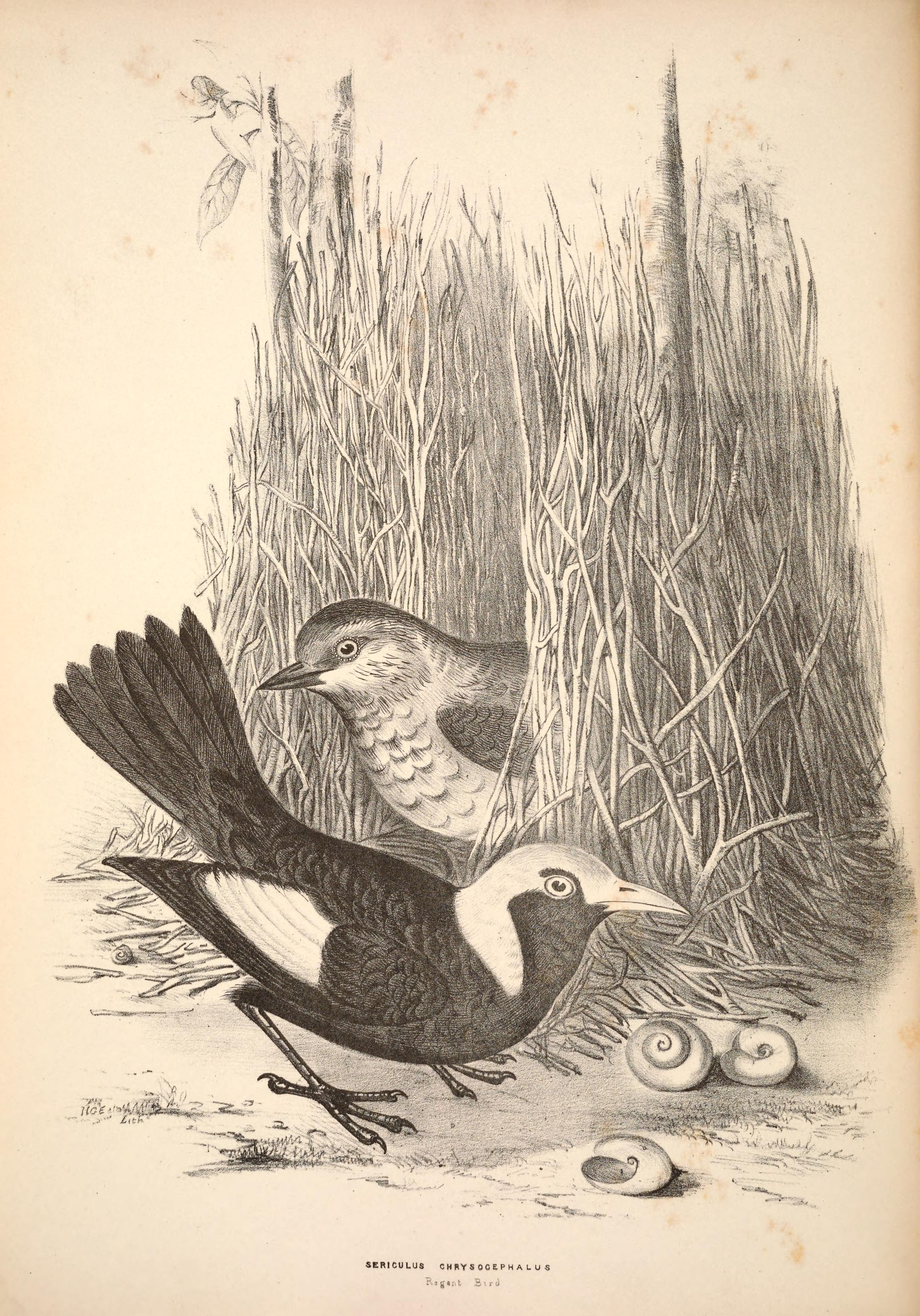 ht m SERICULUS CHRYSOCEPH A L U S 'P'- s g 9 .-. fc Bird